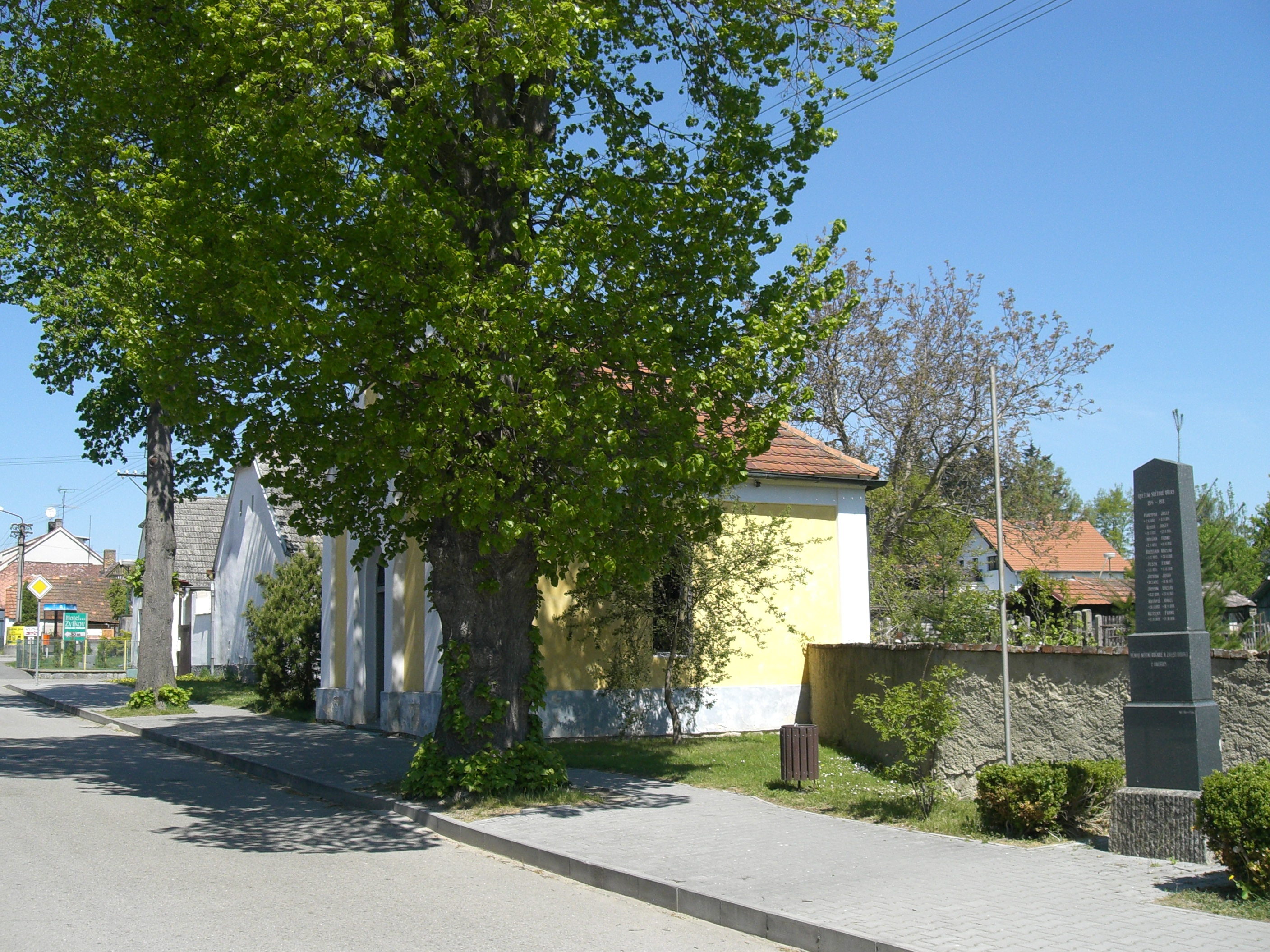 Zvíkovské Podhradí village in Písek district, Czech Republic. Chapel